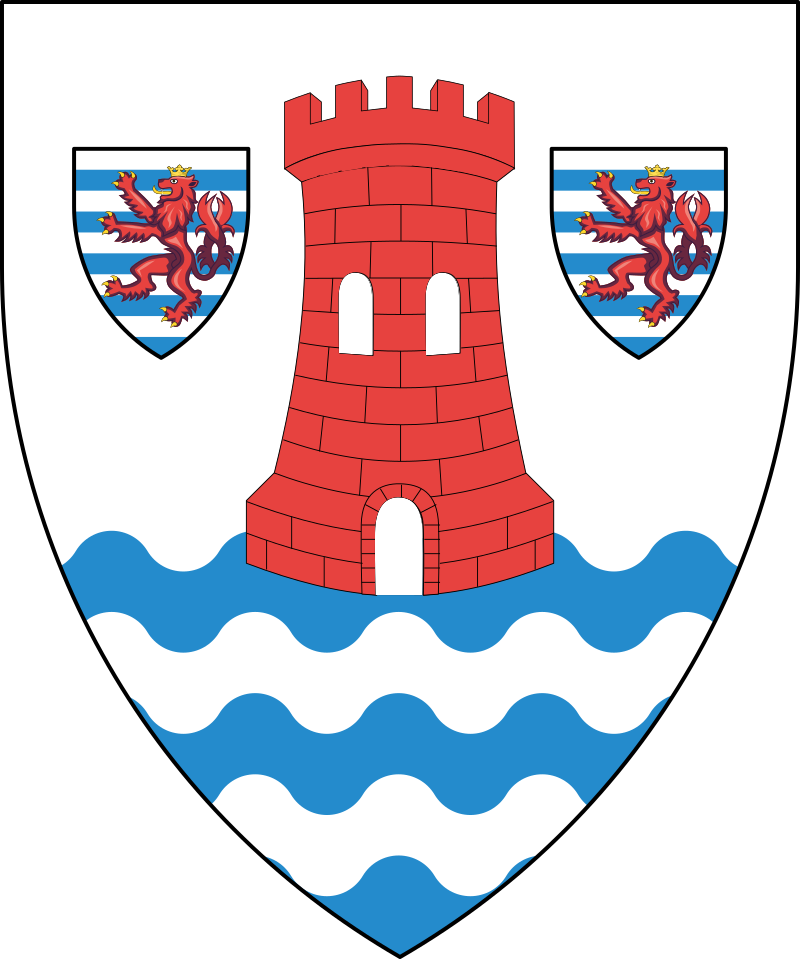 Coat of arms of the municipality of Esch-sur-Alzette, Luxembourg